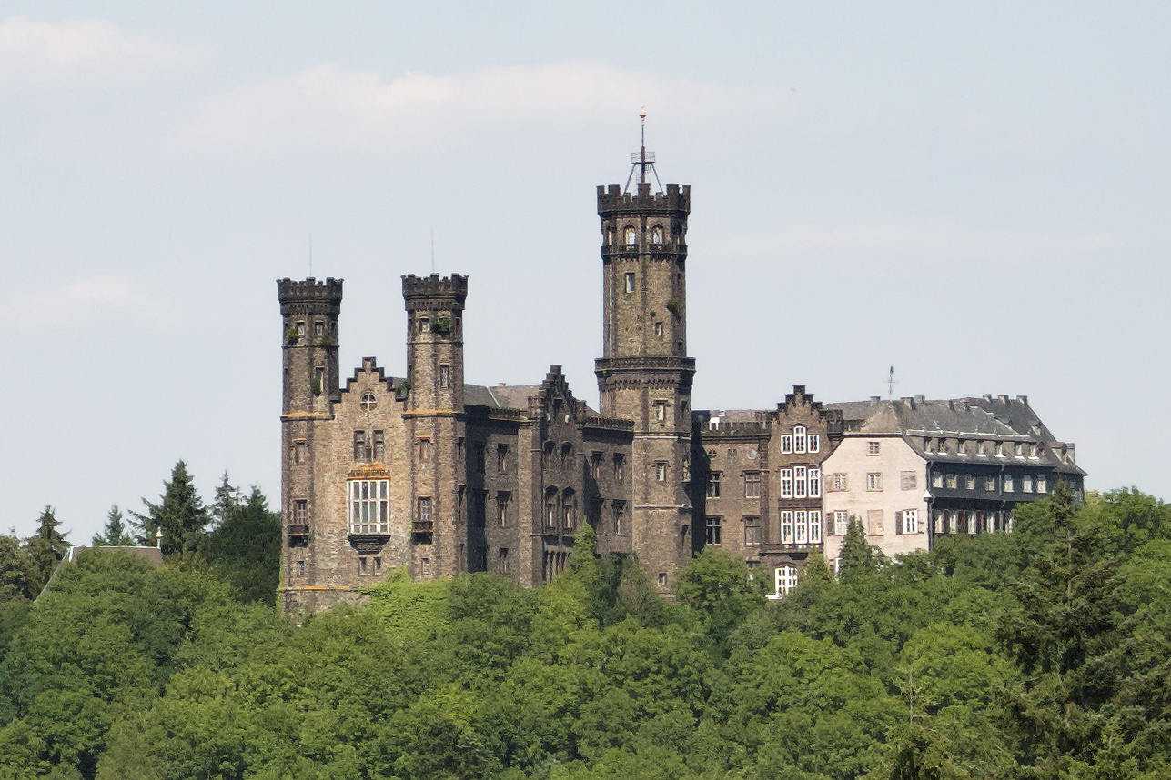 The castle "Schloss Schaumburg" near Balduinstein, Rhein-Lahn-Kreis, Germany. View from southwestern direction.